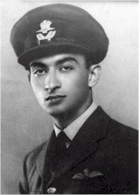 Flight Lieutenant Dinshaw Ferozeshaw Eduljee (1920-1944)